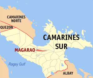 Map of Camarines Sur showing the location of Magarao